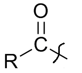 acyl